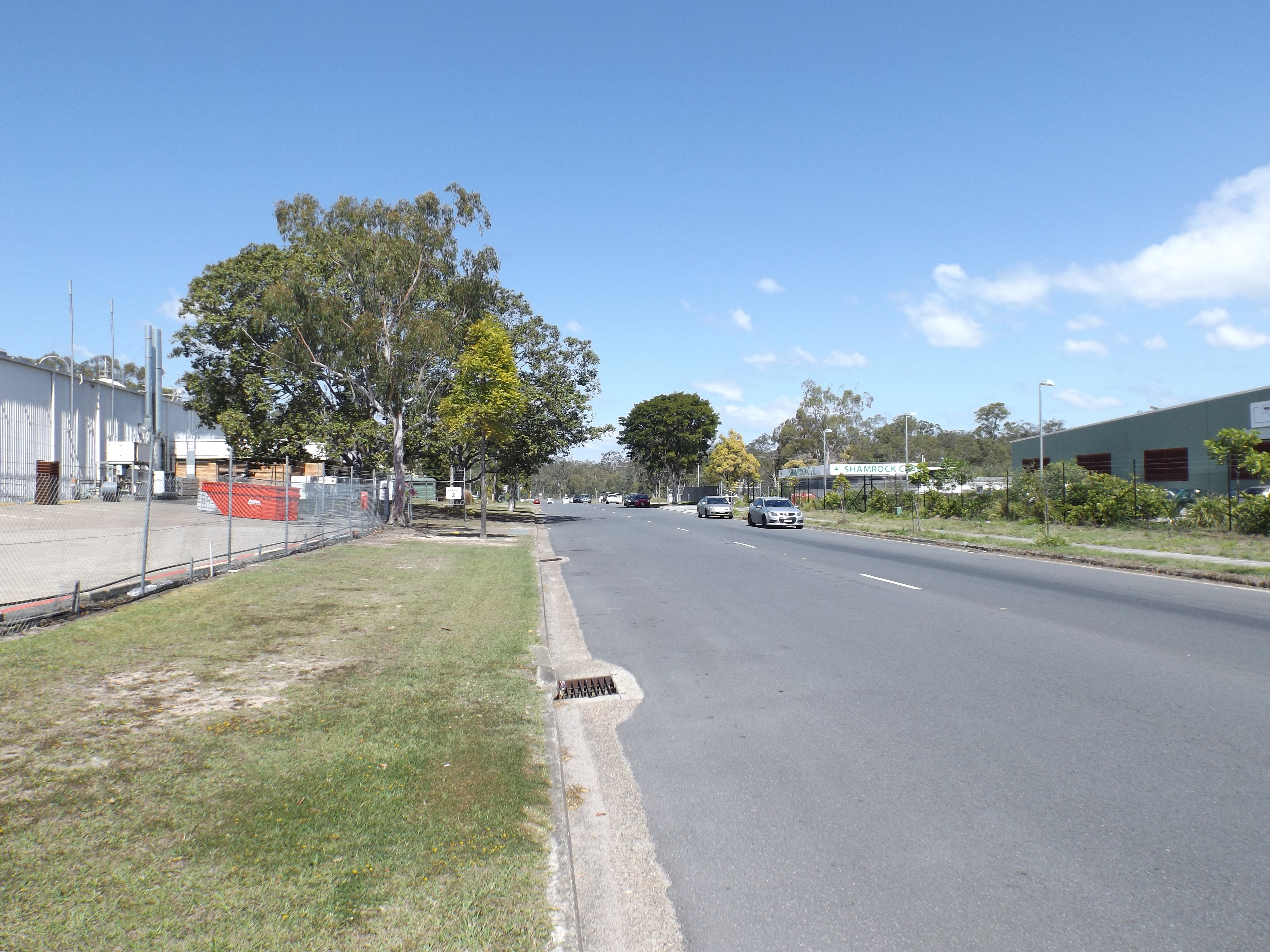 Photo of Cobalt Street at Carole Park, City of Ipswich, Queensland, Australia.